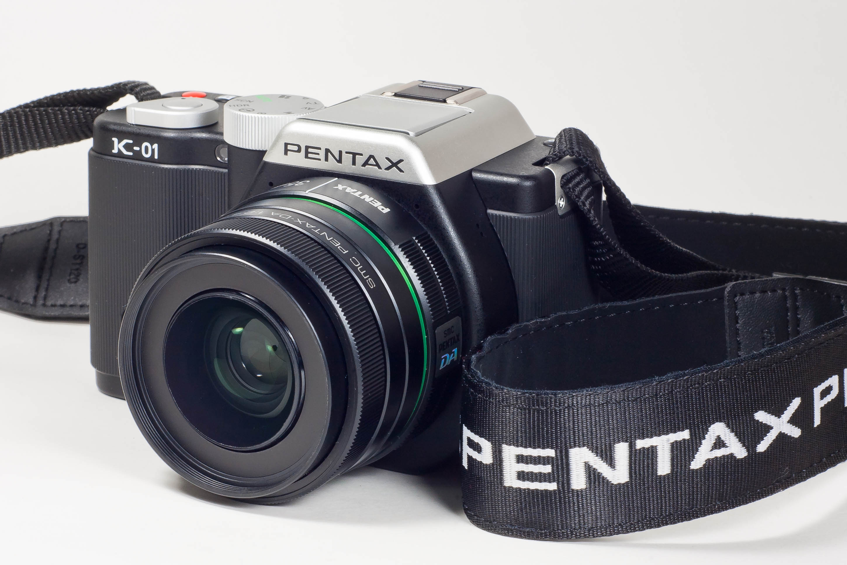 Pentax K-01 camera with SMC Pentax DA 35mm F2.4 AL lens attached.